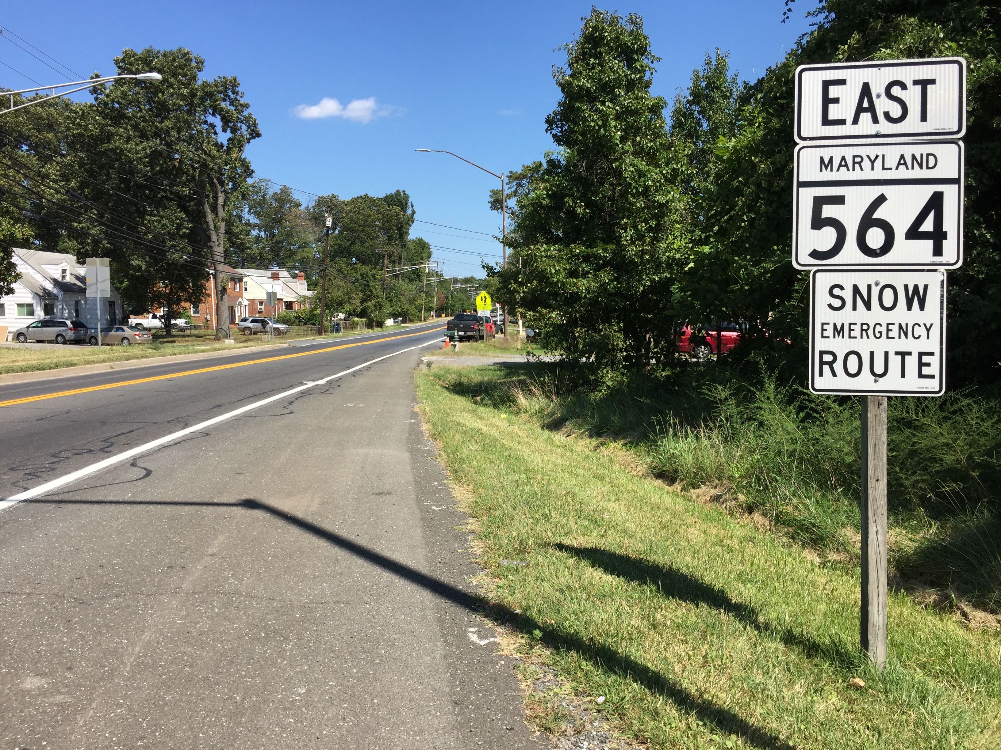 View east along Maryland State Route 564 (Lanham Severn Road) at Maryland State Route 450 (Annapolis Road) in Lanham, Prince Georges County, Maryland